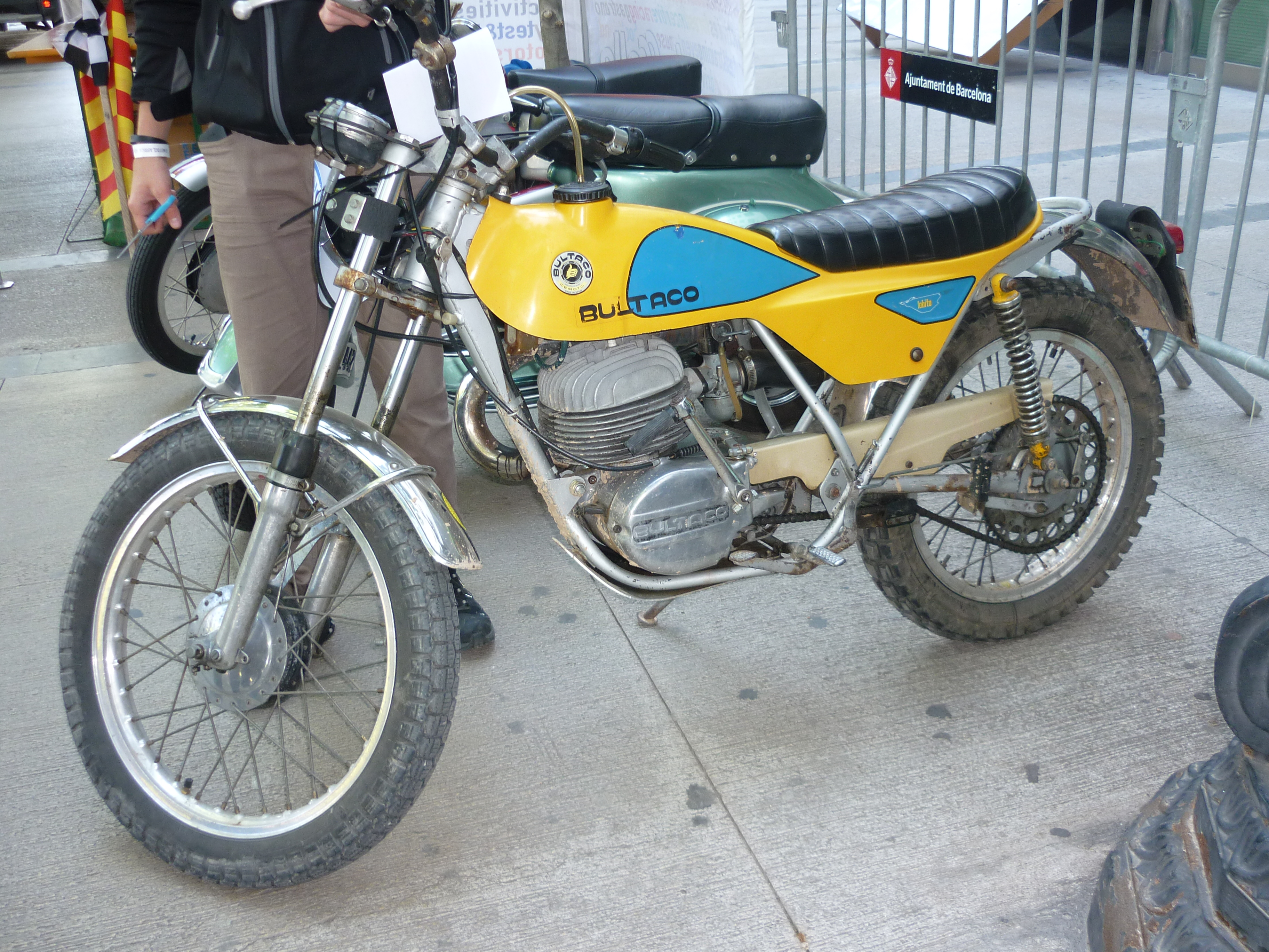 Bultaco Lobito MK8 125, 1974.